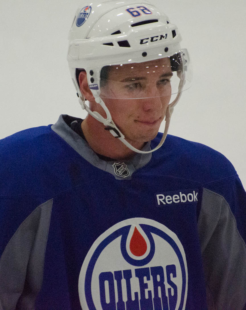 Tyler Pitlick at an Edmonton Oilers practice, Sept. 27, 2014